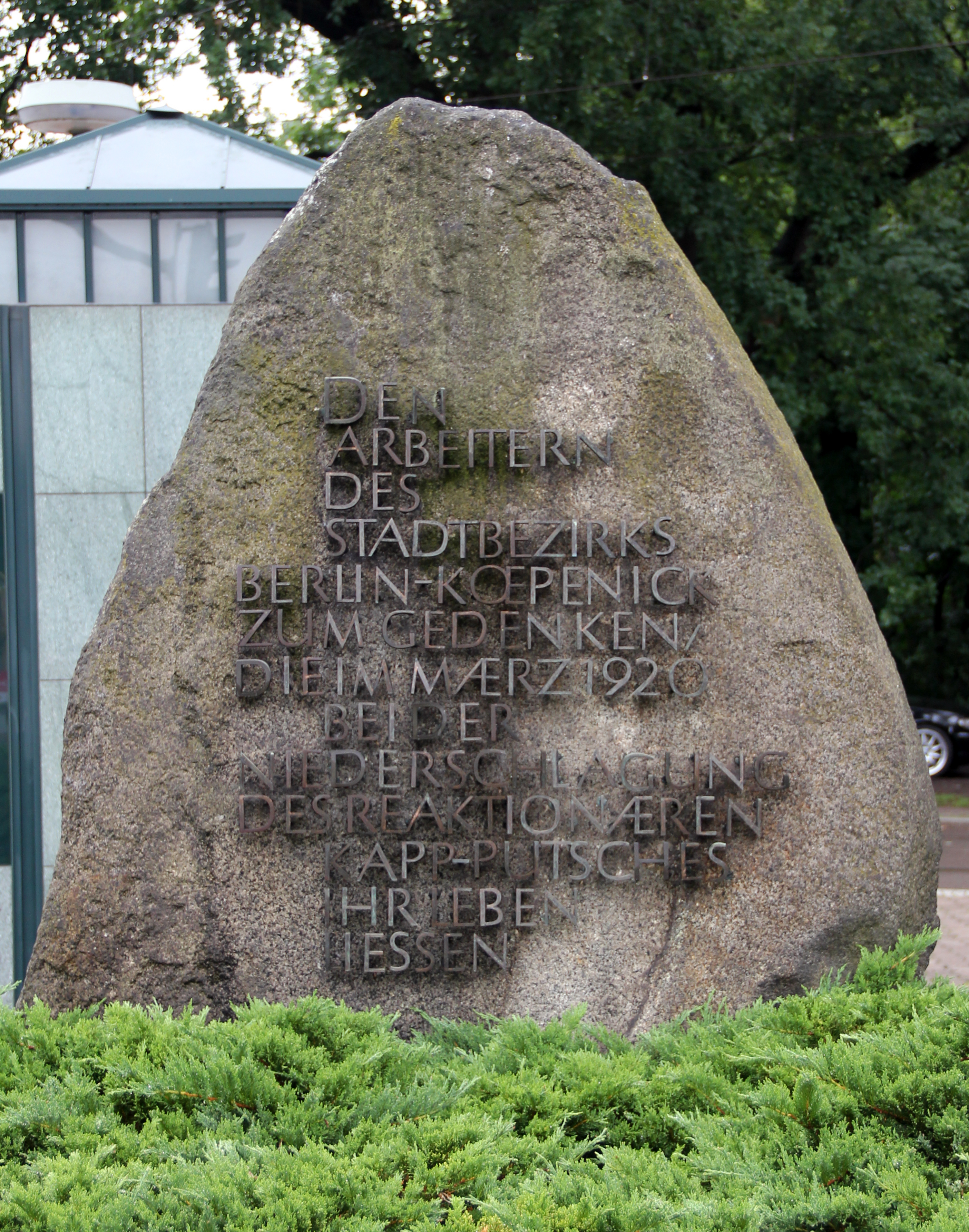 Memorial stone, Kapp-Putsch, Adlergestell 550, Berlin-Grünau, Germany